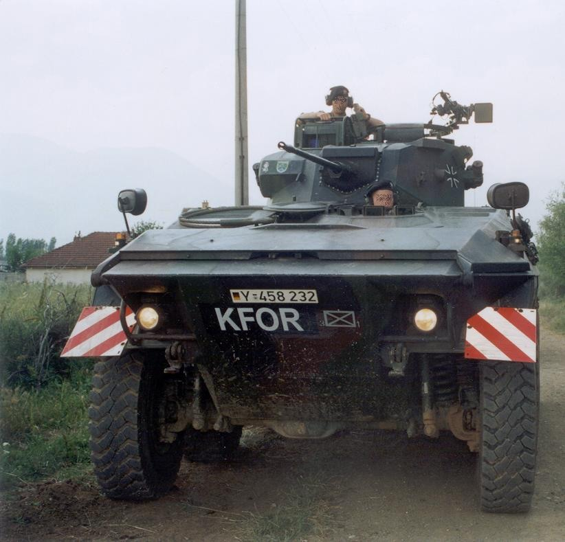 Armoured Reconnaissance Vehicle Luchs 1A2 TF Prizren/Kosovo